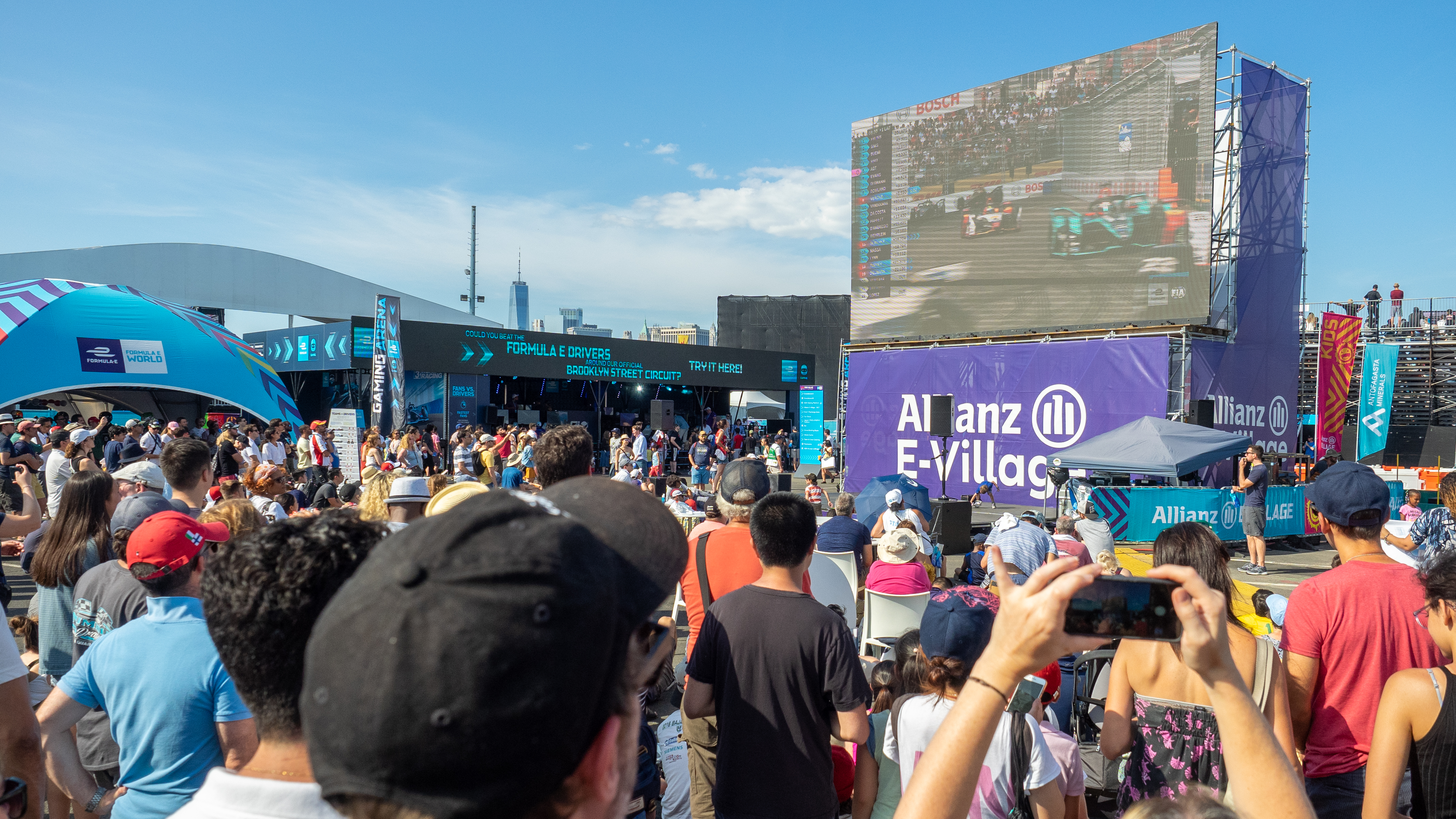 Redhook, Brooklyn, New York City